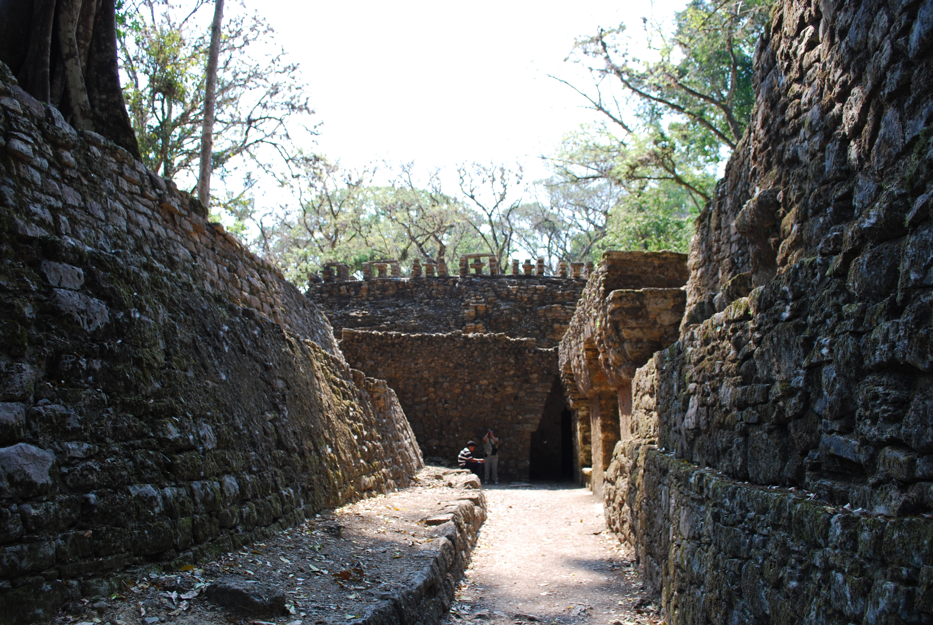 Looking towards Building 19 through the back passage at Yaxchilan, Chiapas, Mexico